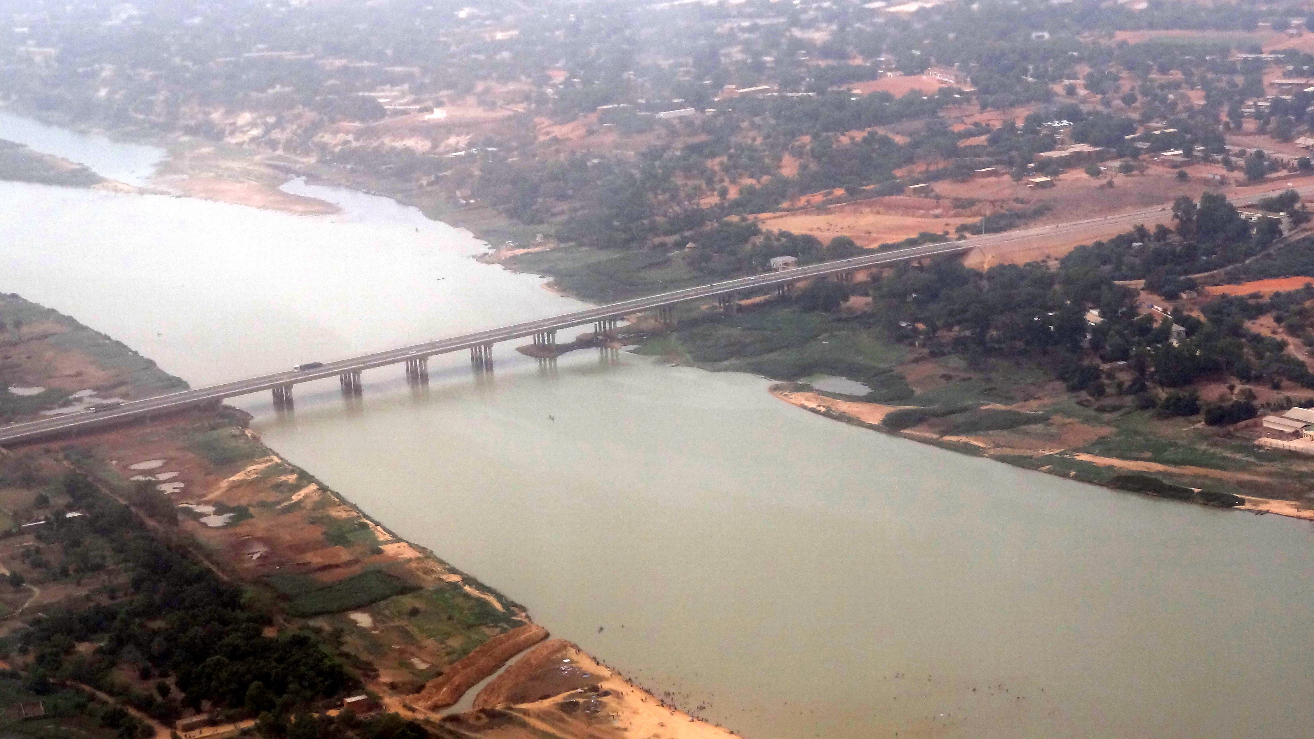 Aeria view of the China-Niger Friendship Bridge, most often called “Chinese Bridge”, previously “second bridge”, opened on Friday, March 18th, 2011 and located in Niamey, Niger.